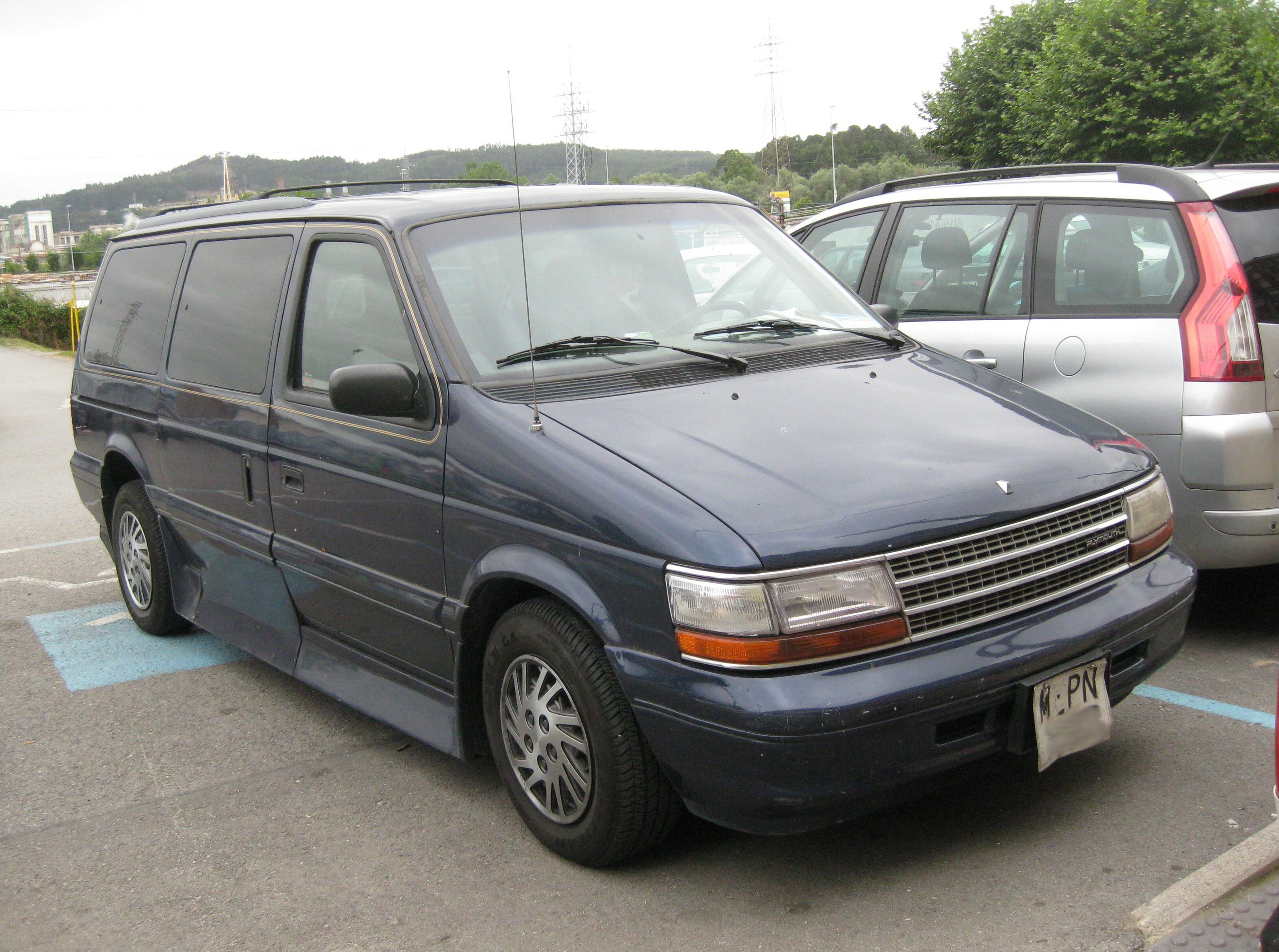 Not much of a rare foreign car because we have this badged as Chrysler but still I loved finding it, shamely it didn't seem to be very well cared, the paint had many dents and sadly the nice Chrysler bonnet ornament was mising. It was prepared for handicapped people hence the lower skirts on the right side. It had a 1994 plate from Madrid.